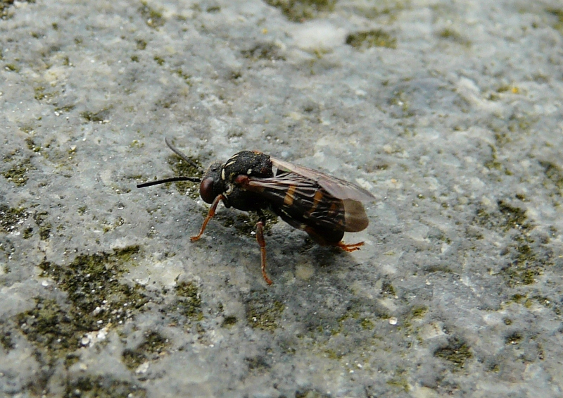 Epeolus tarsalis. Location: The Netherlands - Ooltgensplaat (dorp)